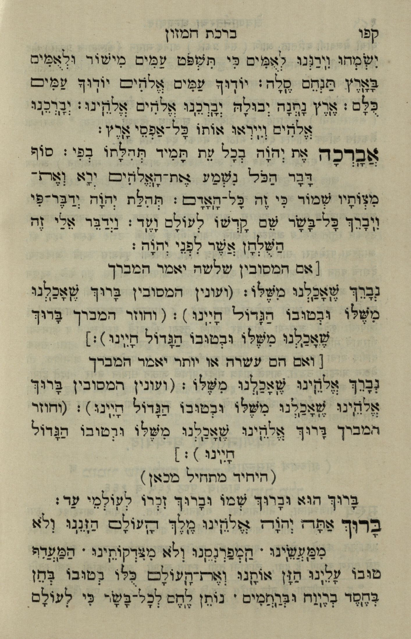 Jewish Prayer Book (Siddur) in Hebrew and Marathi , translated from Hebrew to Marathi in 1889 by Rajpurkar, Joseph Ezekiel